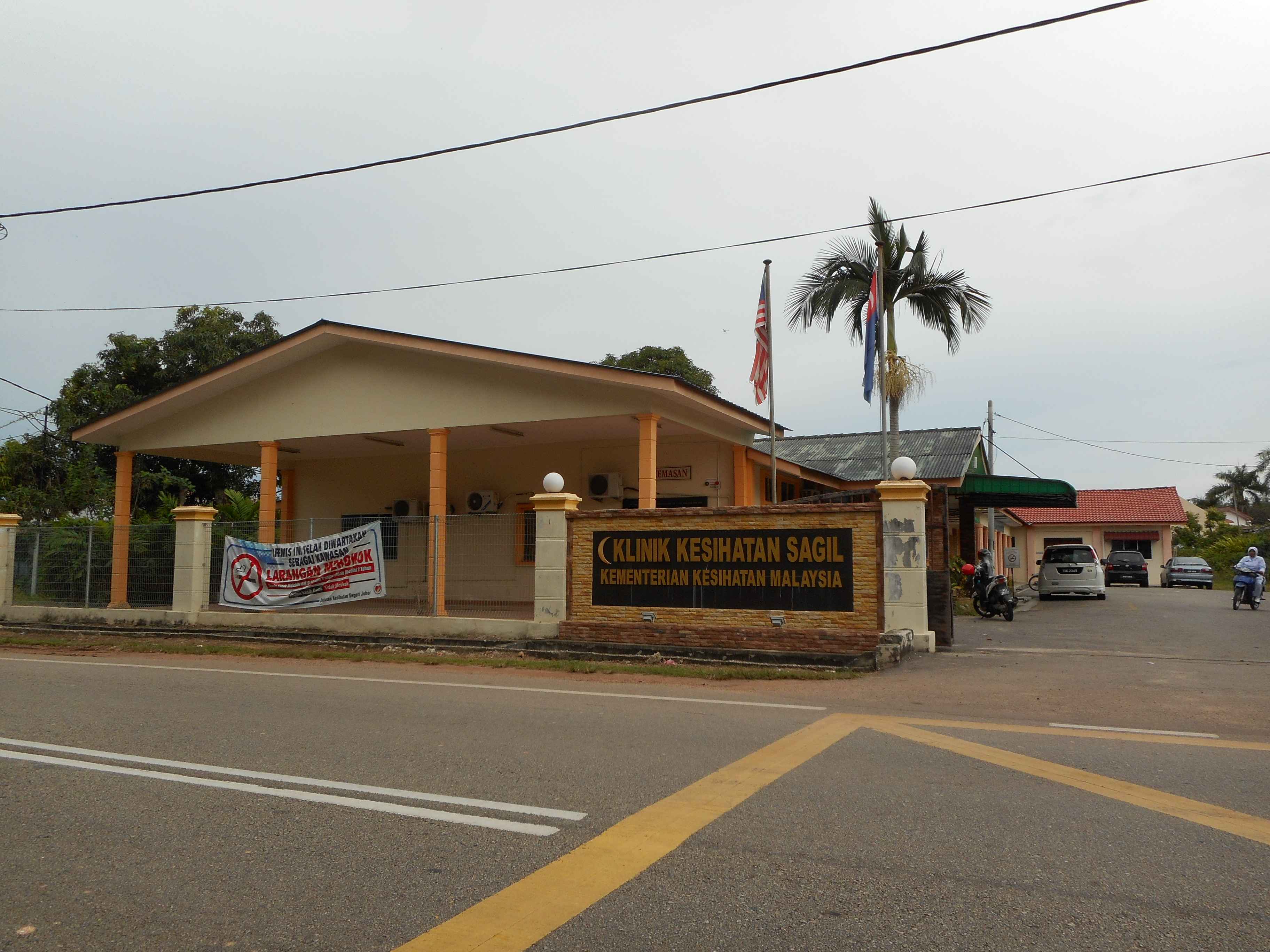 Sagil Health Clinic, Sagil, Tangkak, Johor, Malaysia